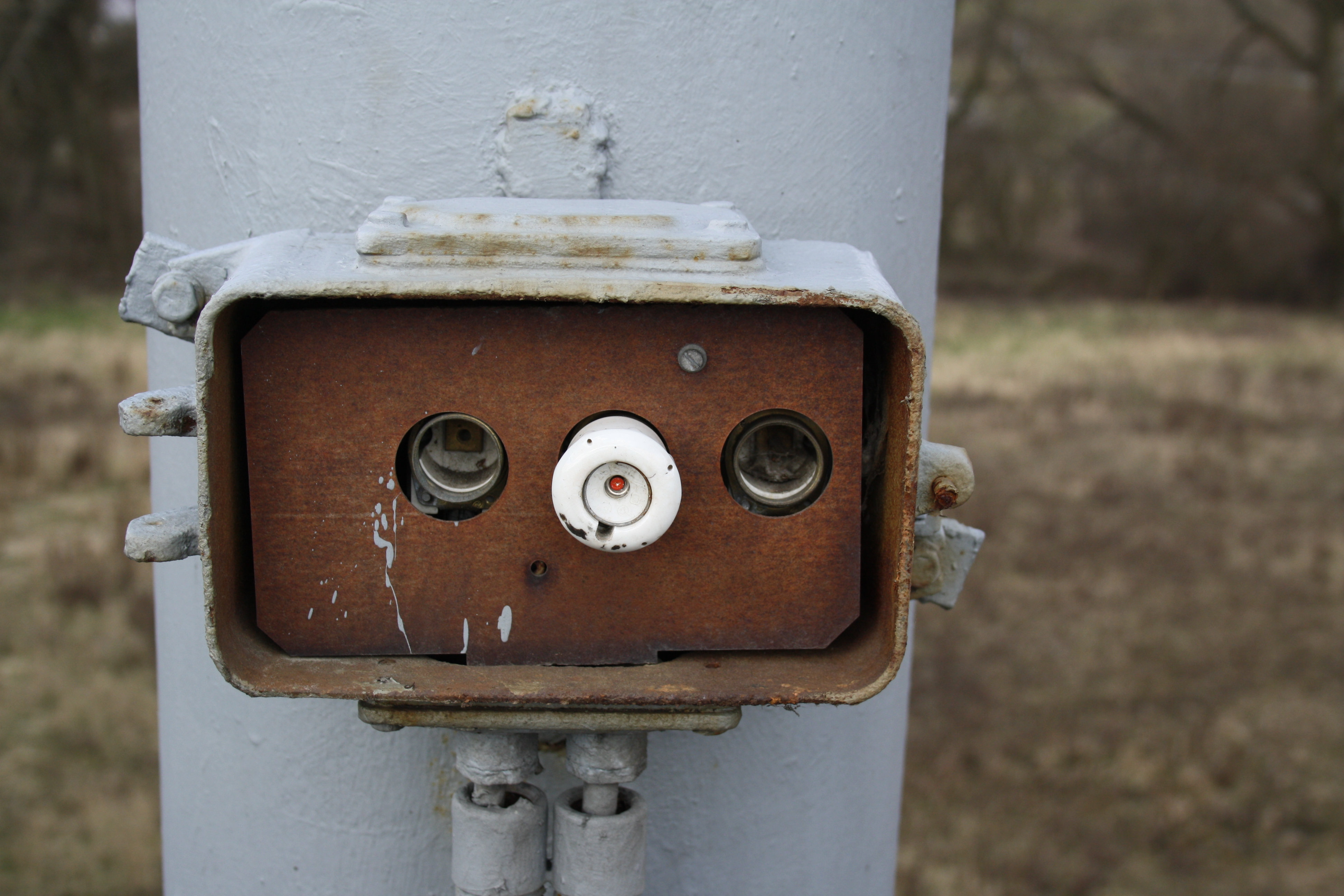 Streetlamp fuses in Třebíč, Czech Republic.